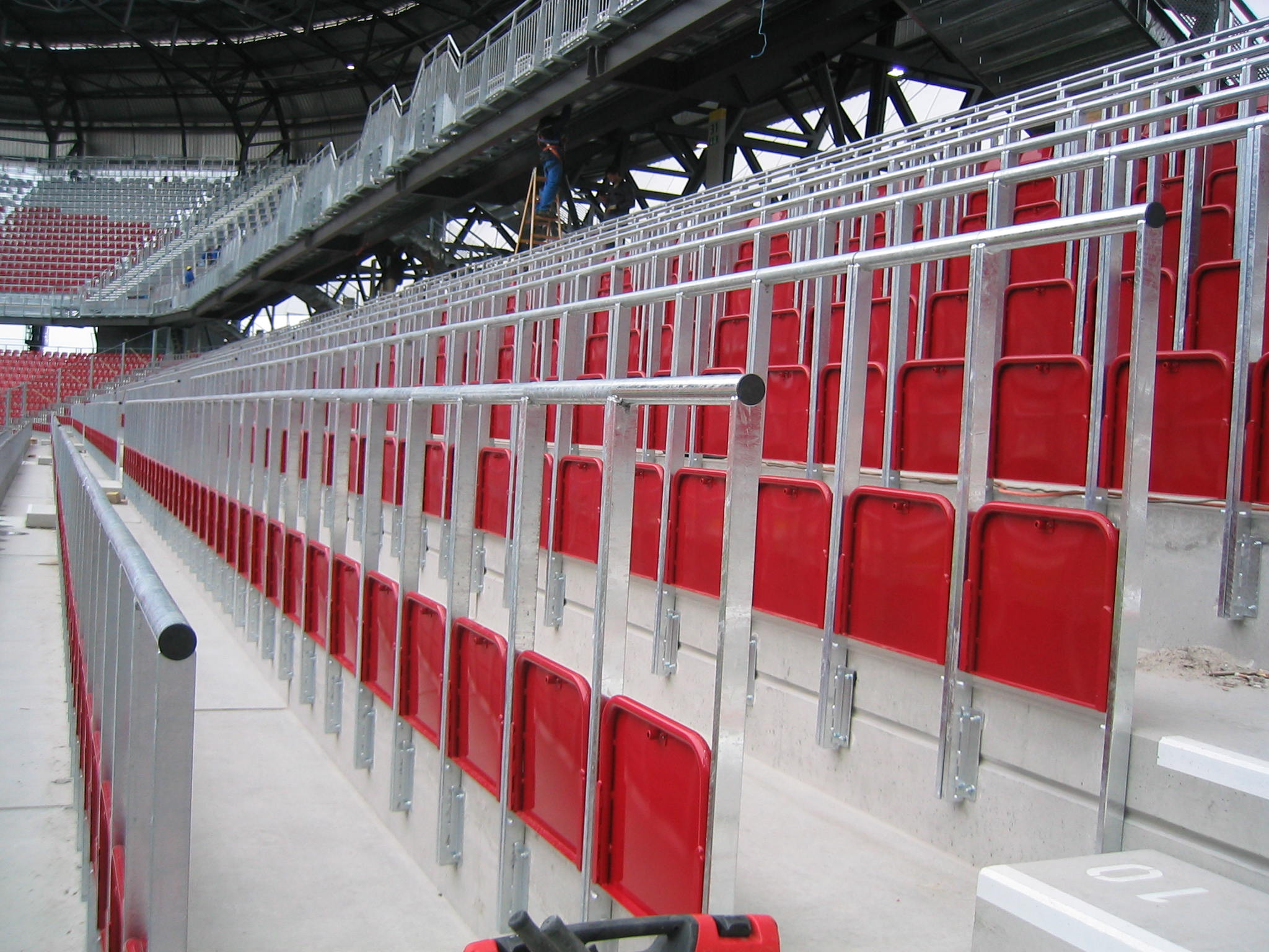 Rail seats in the brand new stadium in Klagenfurt, Austria, built for Euro 2008